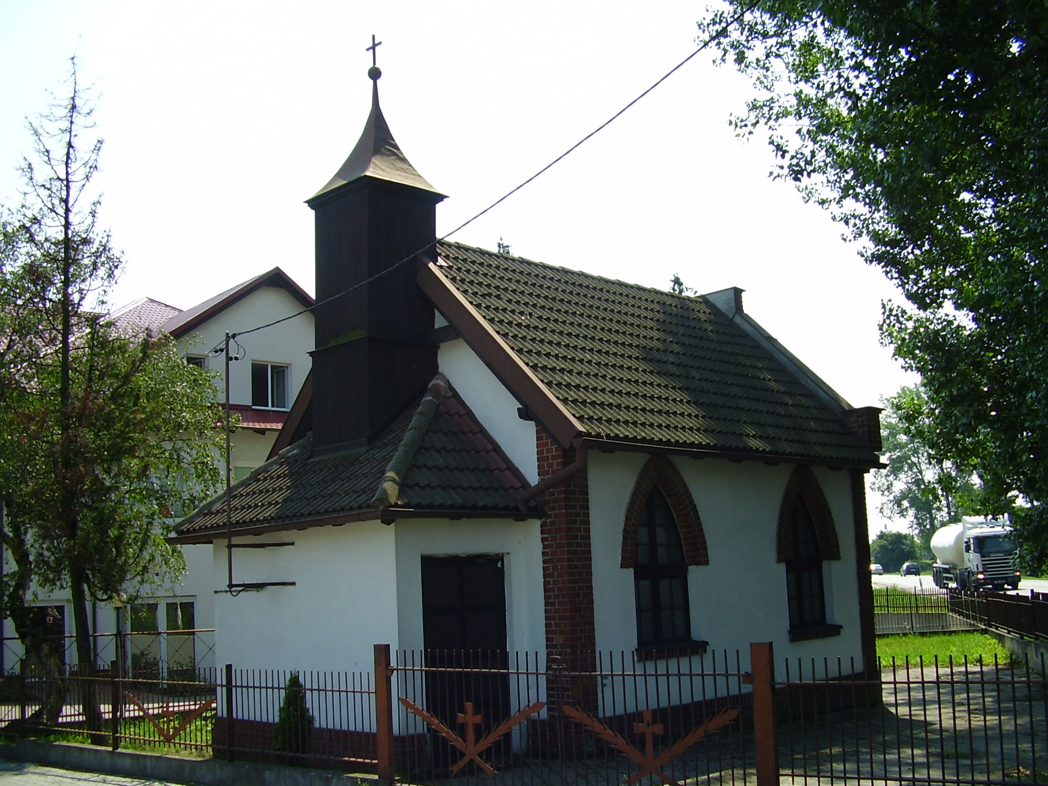 Chapel in Pszczółki (Poland)